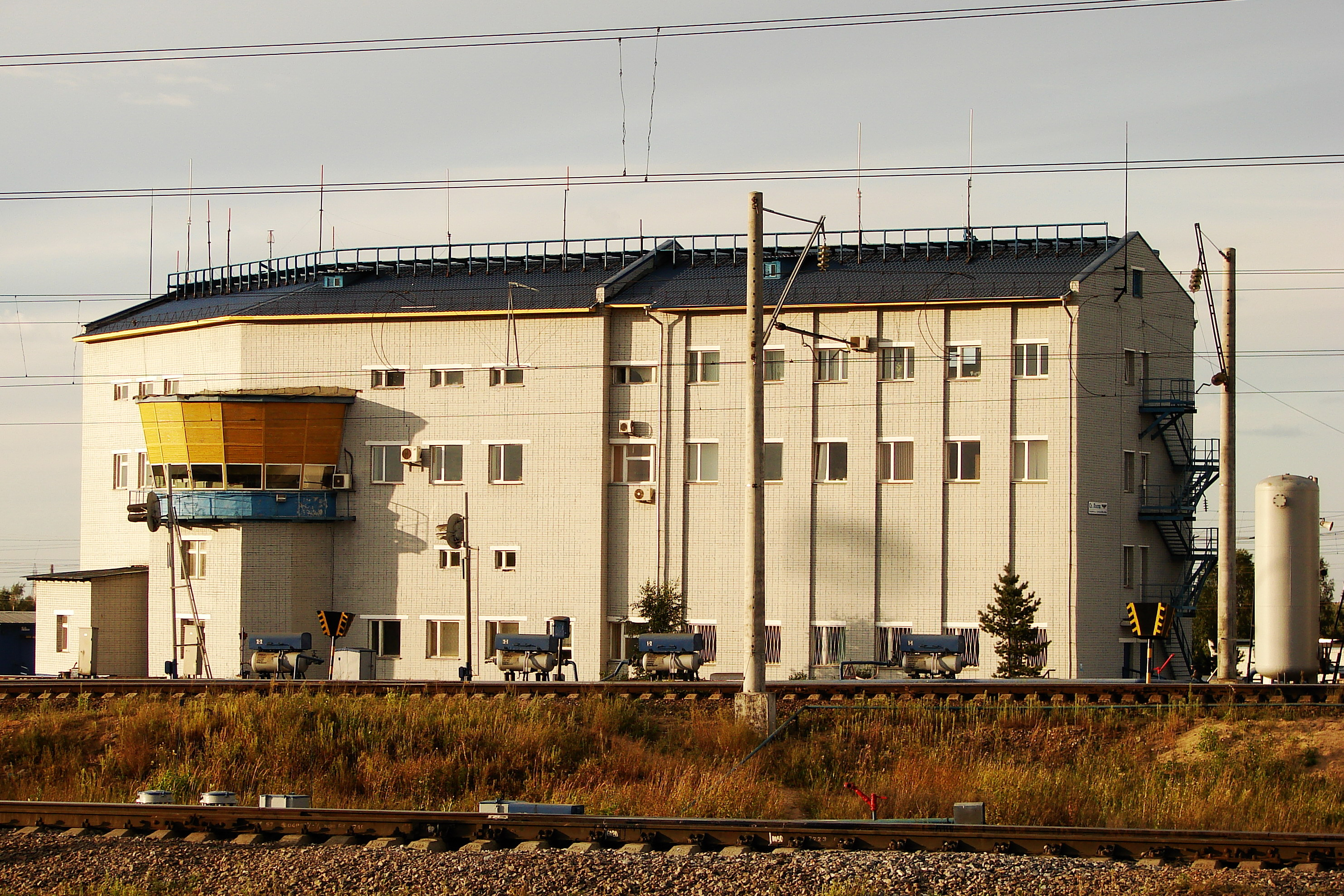 Russia, Electric Centralization building at Losta station